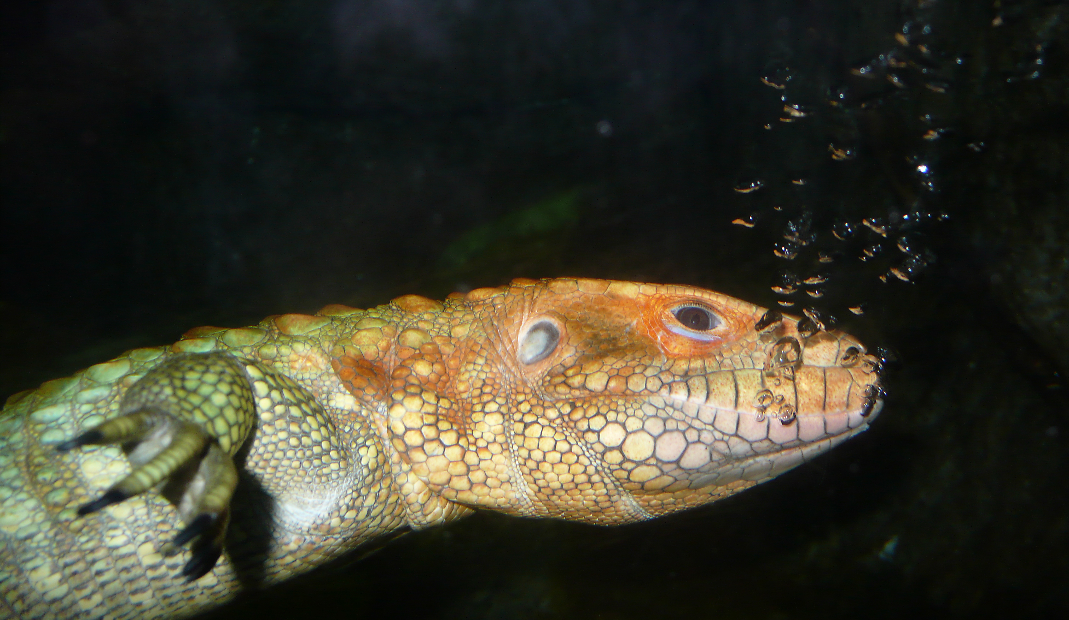 Caiman Lizard (Dracaena guianensis) swimming underwater